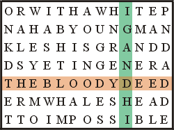 Moby Dick code